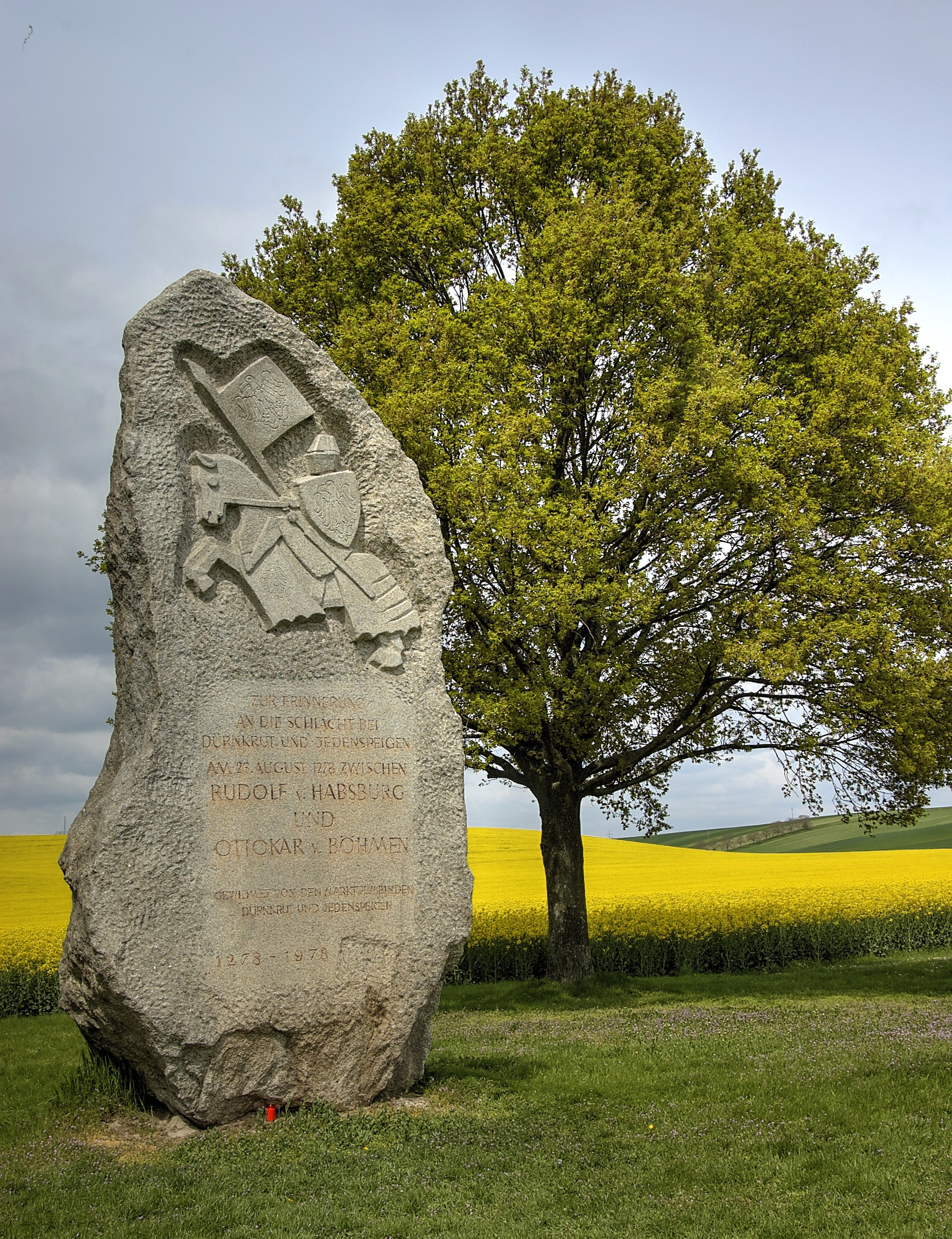 Dürnkrut, a monument on the place of the battle between Přemysl Ottokar II of Bohemia and Rudolf I of Habsburg (Battle of Dürnkrut, Austria and Jedenspeigen)